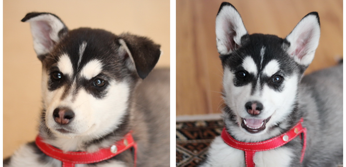 Transformation of the ears of a huskamute puppy in 6 days